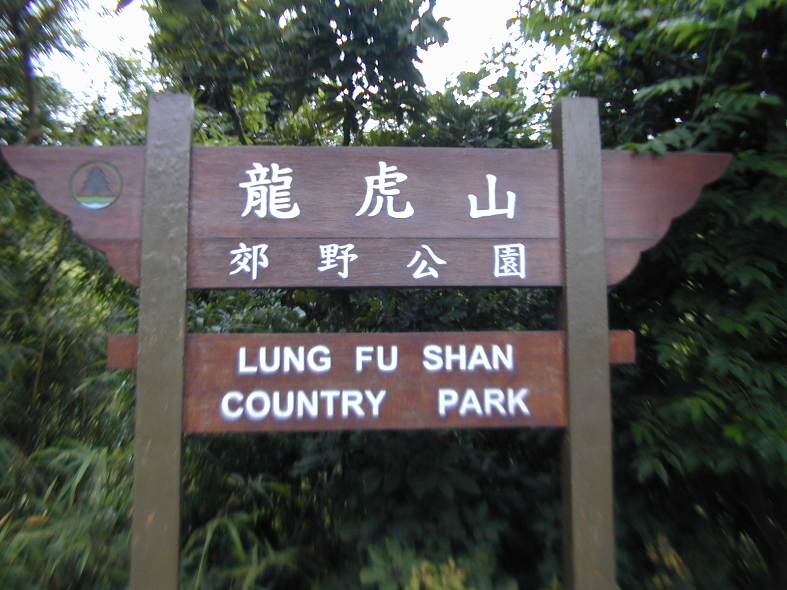 Photo of Lung Fu Shan Country Park